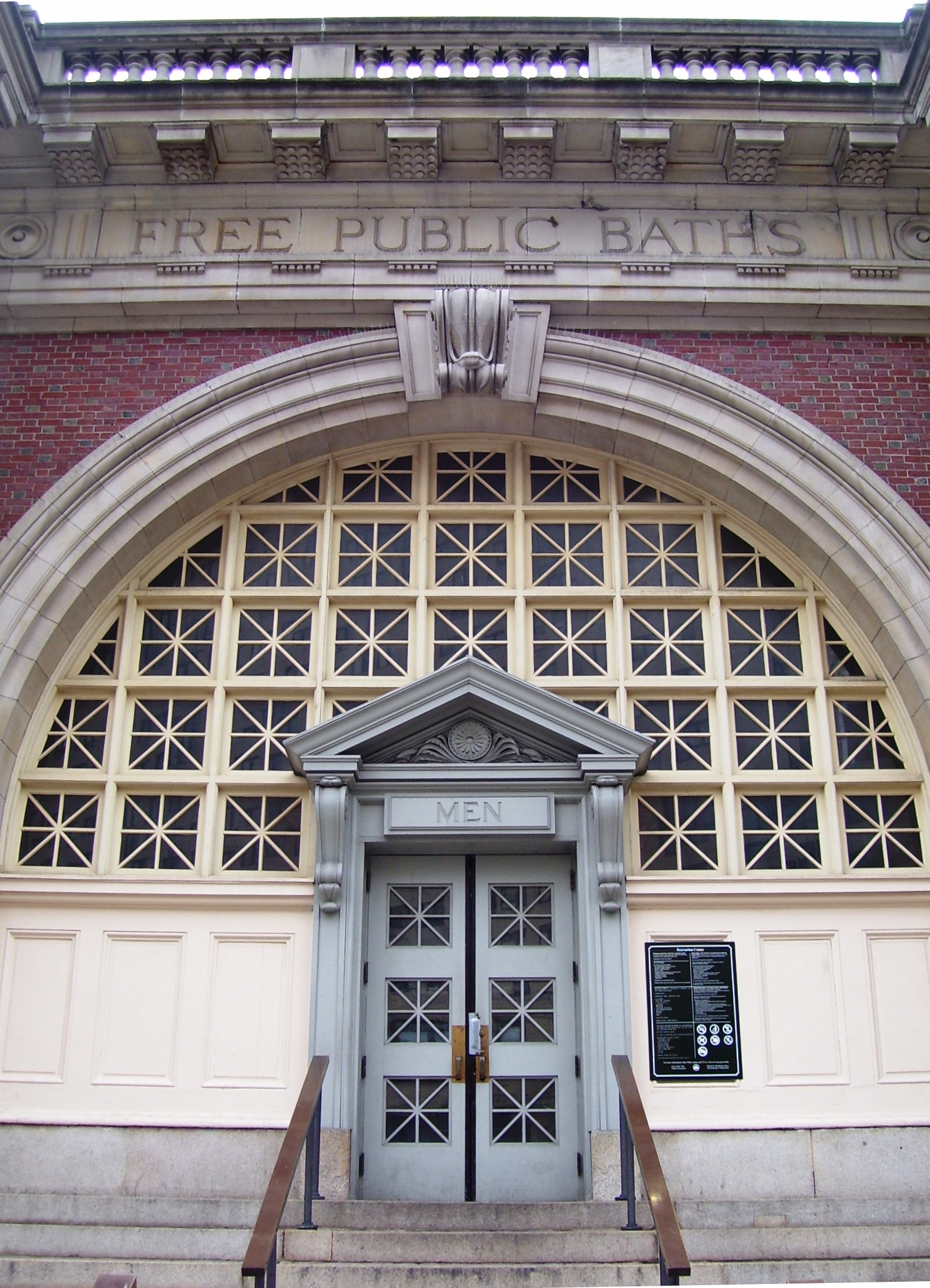 Asser Levy Recreation Center on East 23rd Street and Asser Levy Place, Manhattan, New York City, was built as a free public bath in 1904-1906, designed by Brunner & Aiken, and modeled after the public baths of ancient Rome. The baths were intended to help relieve the unsanitary conditions in the slums, where many people did not have access to private bath or shower. It is named after a prominent Jewish citizen of the Dutch colony of New Amsterdam, which preceded the English city of New York. {Source:Guide to NYC Landmarks (4th ed.))